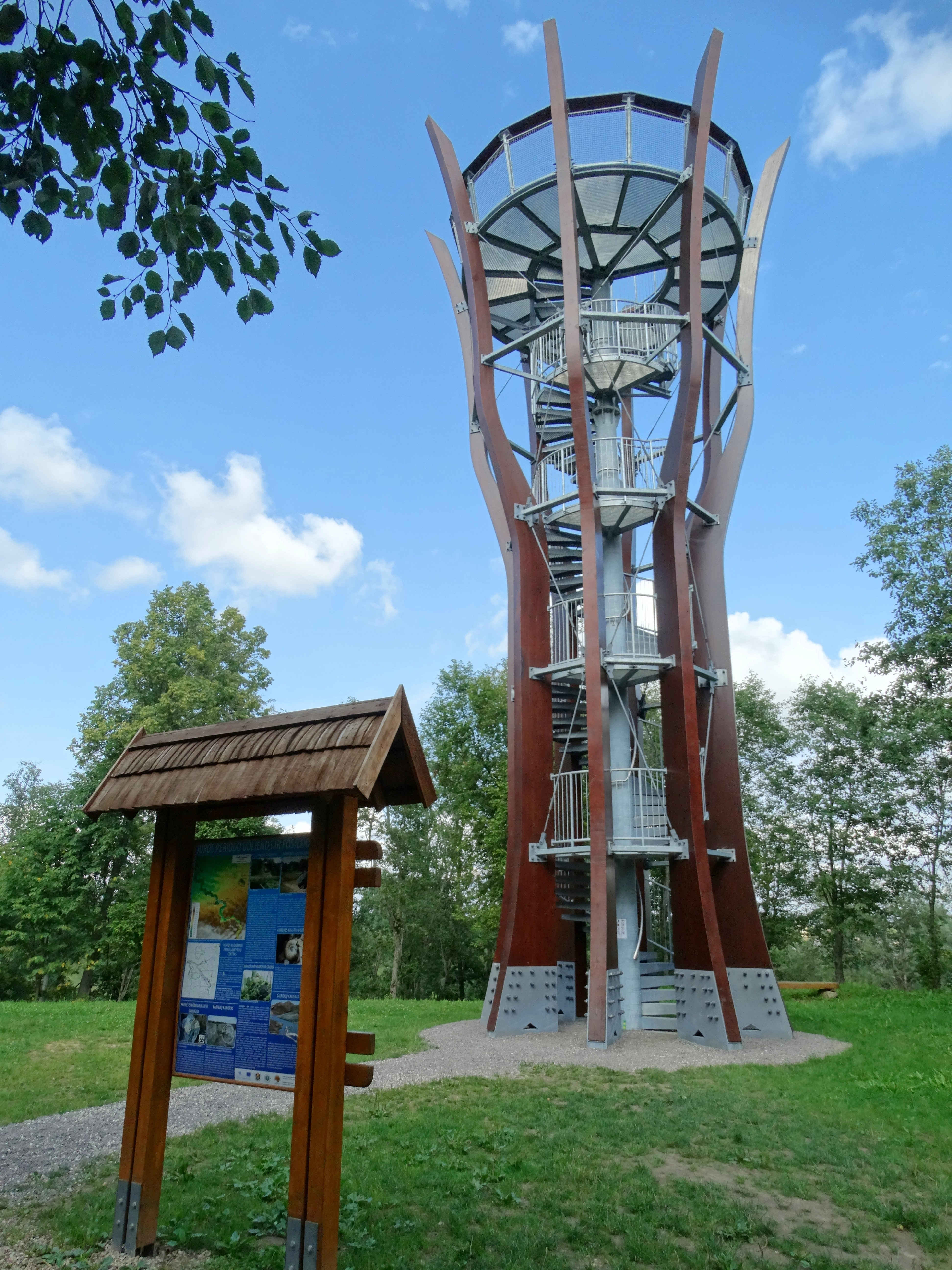 Observation tower, Papilė, Akmenė district, Lithuania